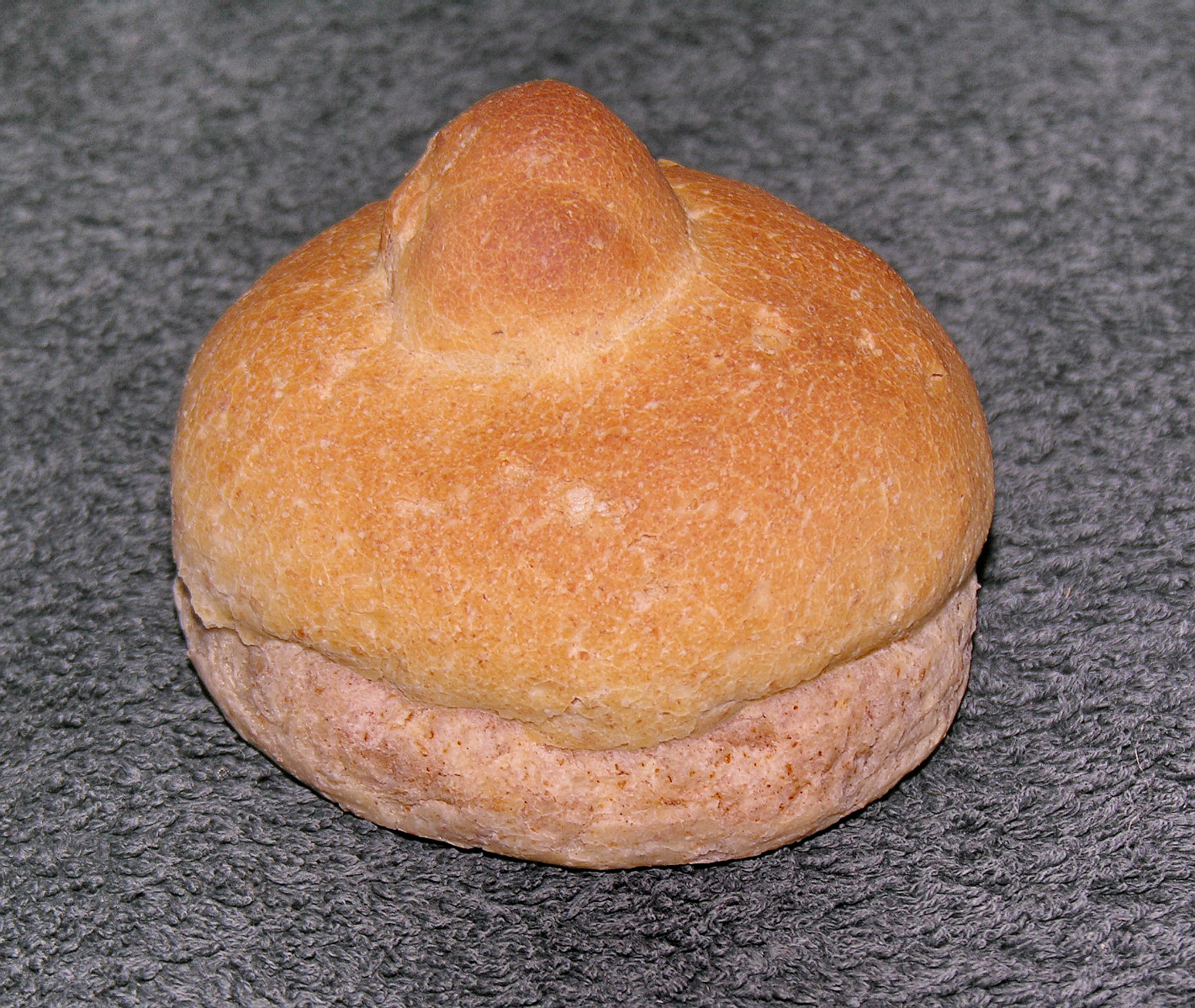 Mons(Var)Sainte-Agathe breast pancake